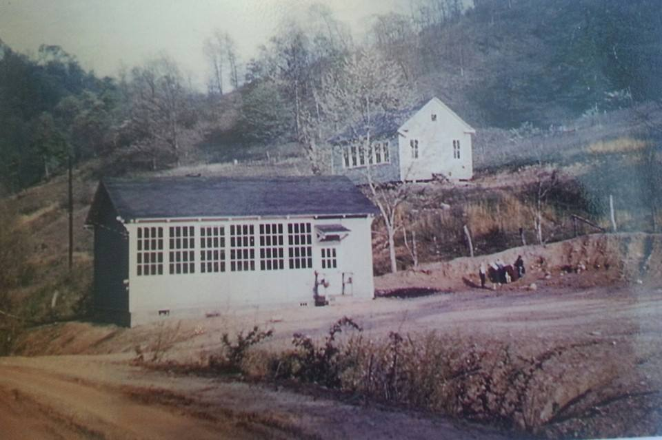 This is the Lee Dingess School